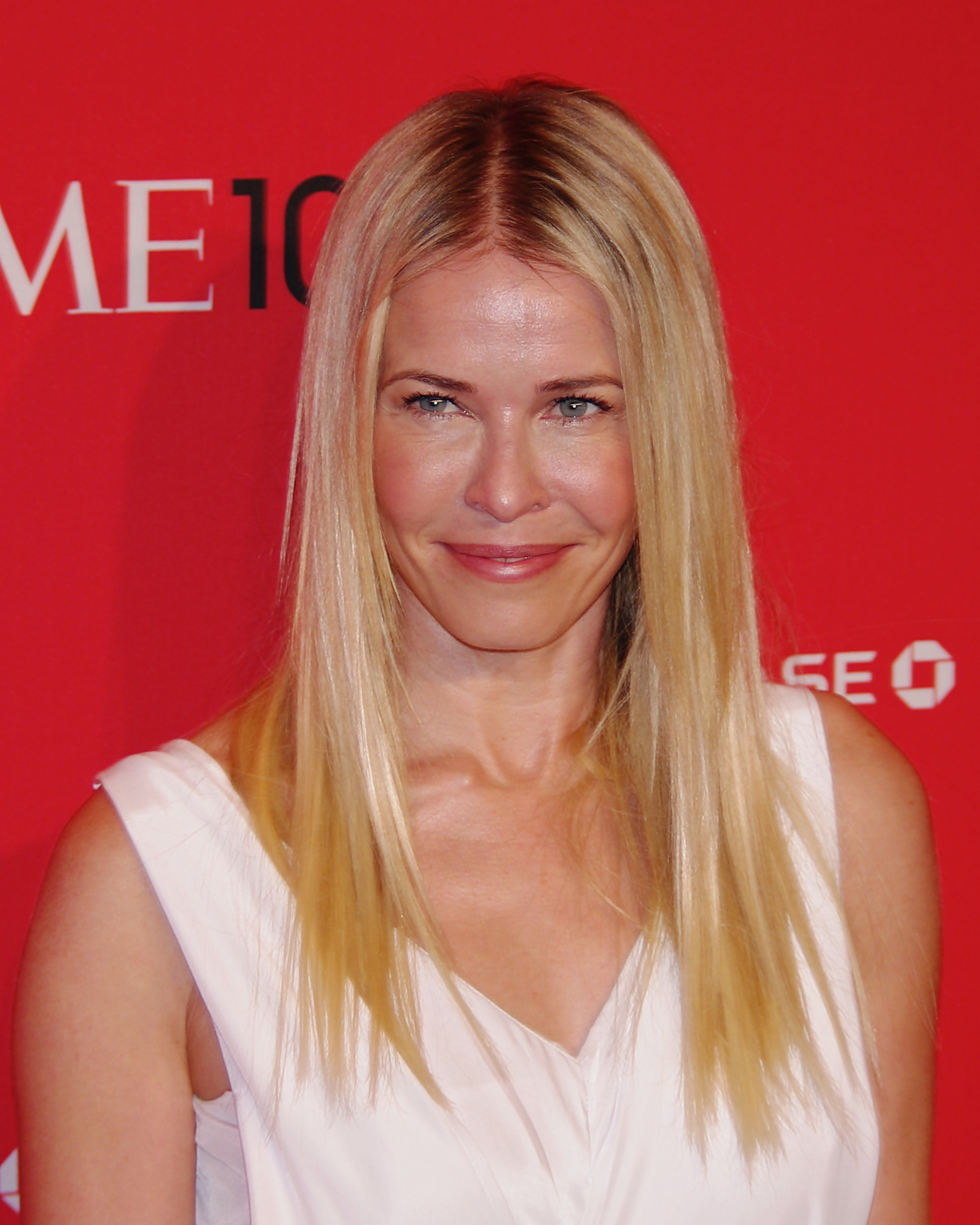 Chelsea Handler at the 2012 Time 100 gala.